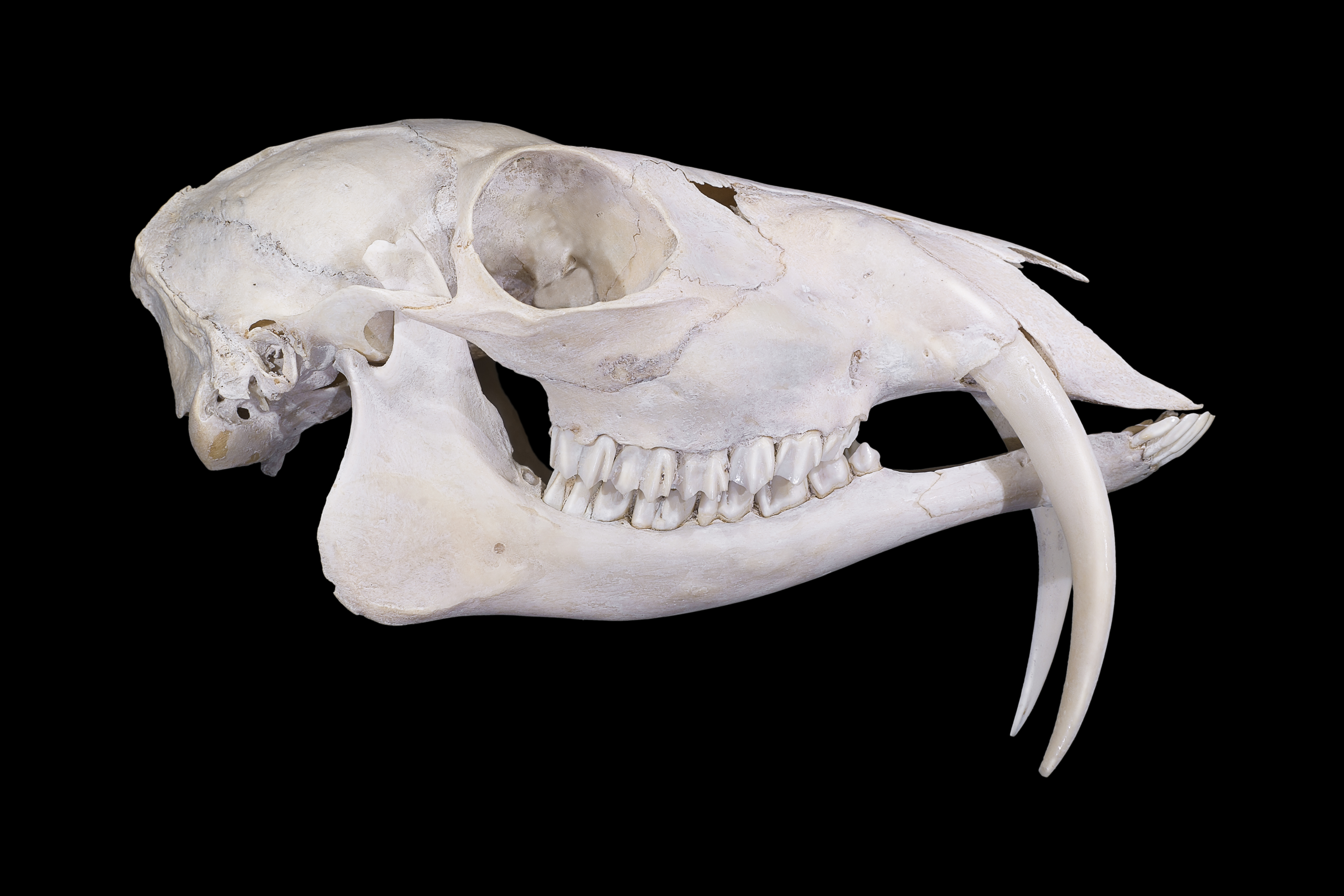 Skull of Siberian Musk Deer Moschus moschiferus (Linnaeus 1758) (View profil.) - Siberia Size : 17,5 × 8 × 6 cm.